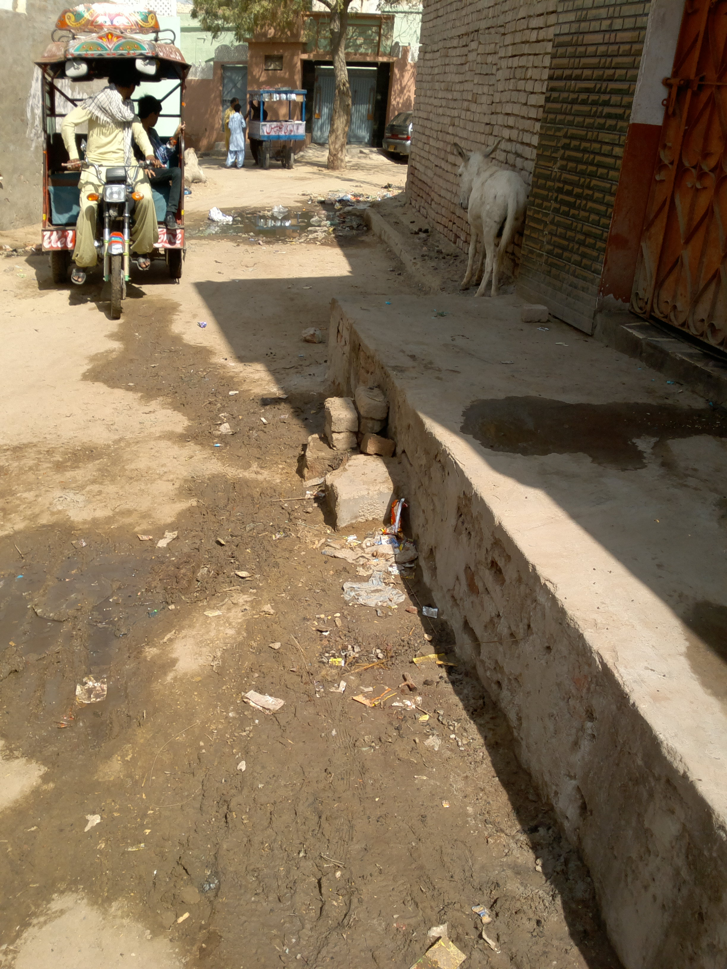 Local transportation in Tharparkar. This vehicle is locally termed as "Chinchi".